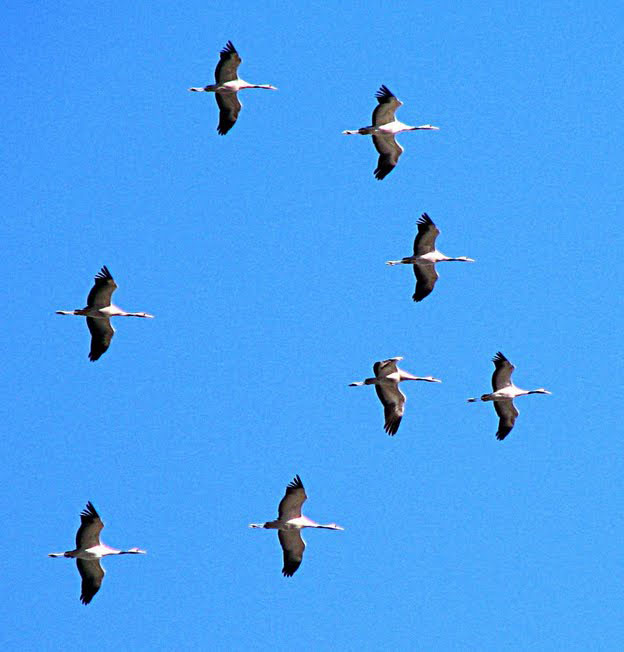 Eurasian Cranes in flight at Meyghan Salt Lake.